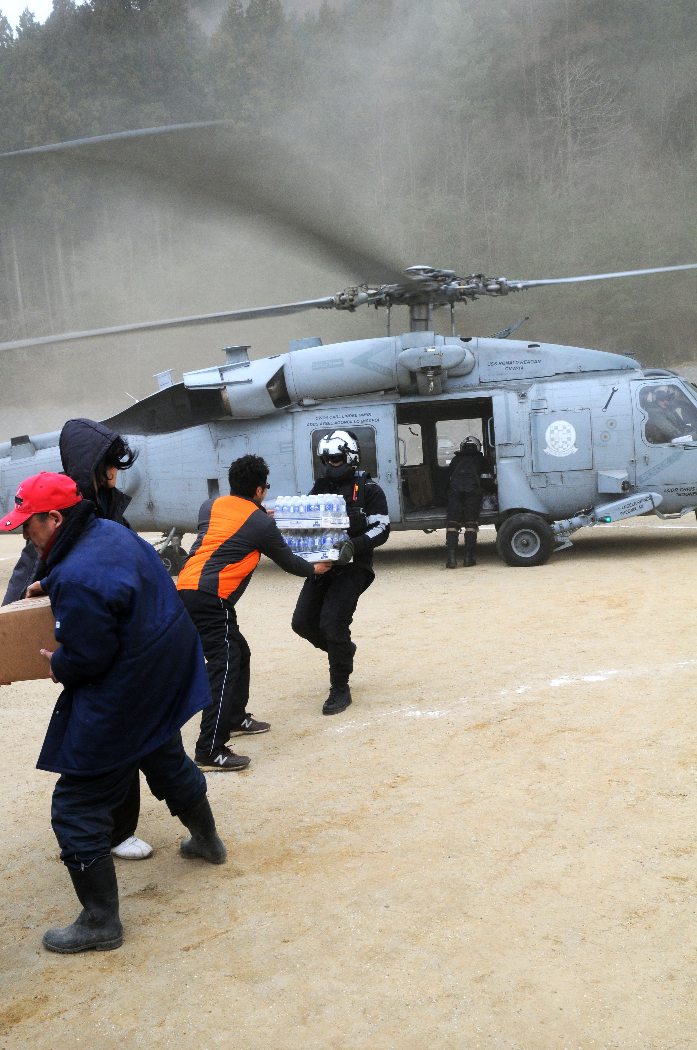 NORTHERN JAPAN (March 15, 2011) Chief Naval Air Crewman Steven Sinclair, assigned to the Black Knights of Helicopter Anti-Submarine Squadron (HS) 4 embarked aboard the aircraft carrier USS Ronald Reagan (CVN 76), hands bottled water to a Japanese citizen. HS-4 is delivering humanitarian supplies to areas affected by a 9.0 magnitude earthquake and subsequent tsunami. Ships and aircraft from the Ronald Reagan Carrier Strike Group are conducting search and rescue operations and re-supply missions as directed in support of Operation Tomodachi throughout northern Japan. (U.S. Navy photo by Mass Communication Specialist 3rd Class Kevin B. Gray/Released)